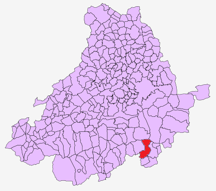 La Adrada